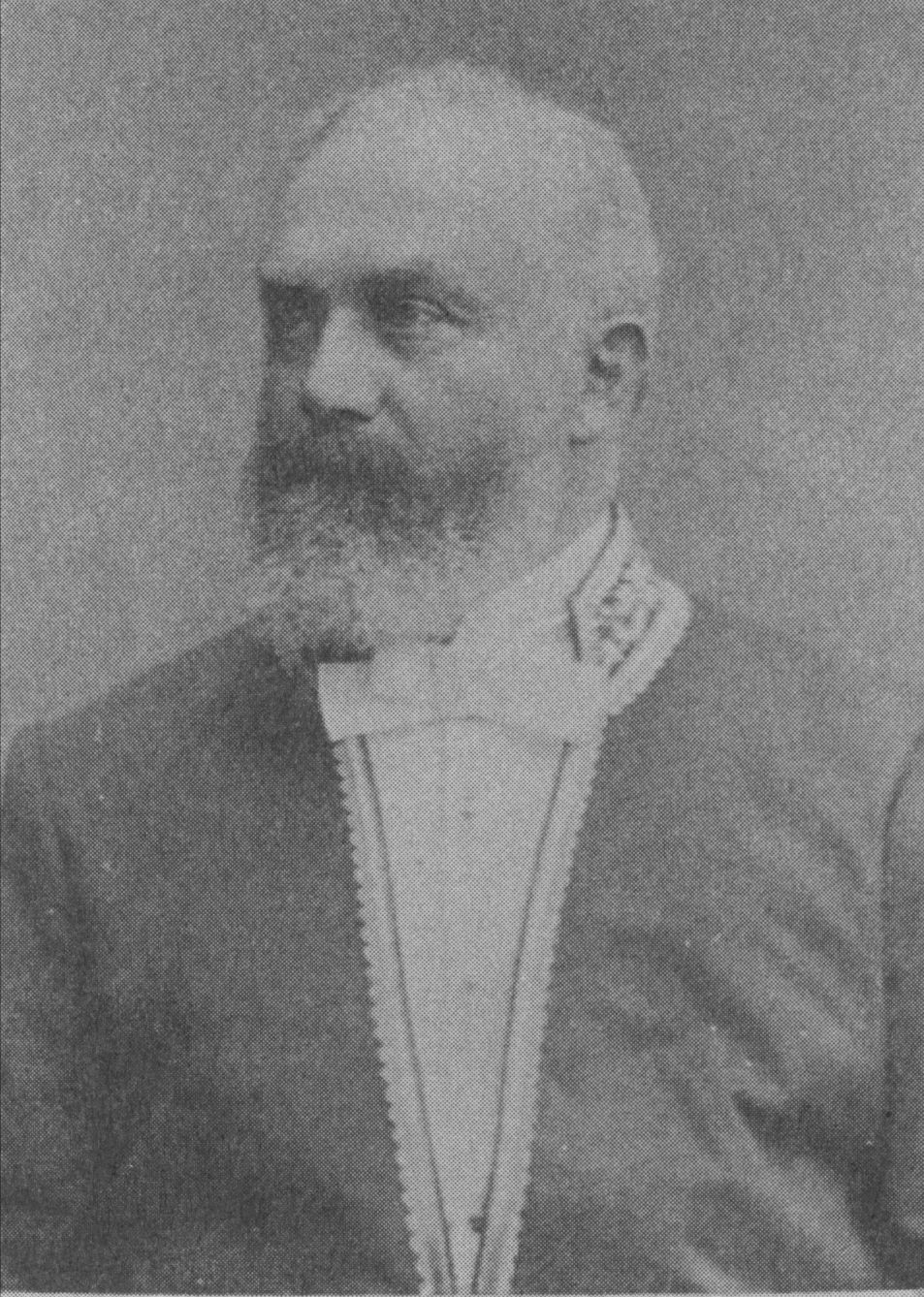 portrait of Guido Breitfeld (1831–1894), German politician and entrepreneur